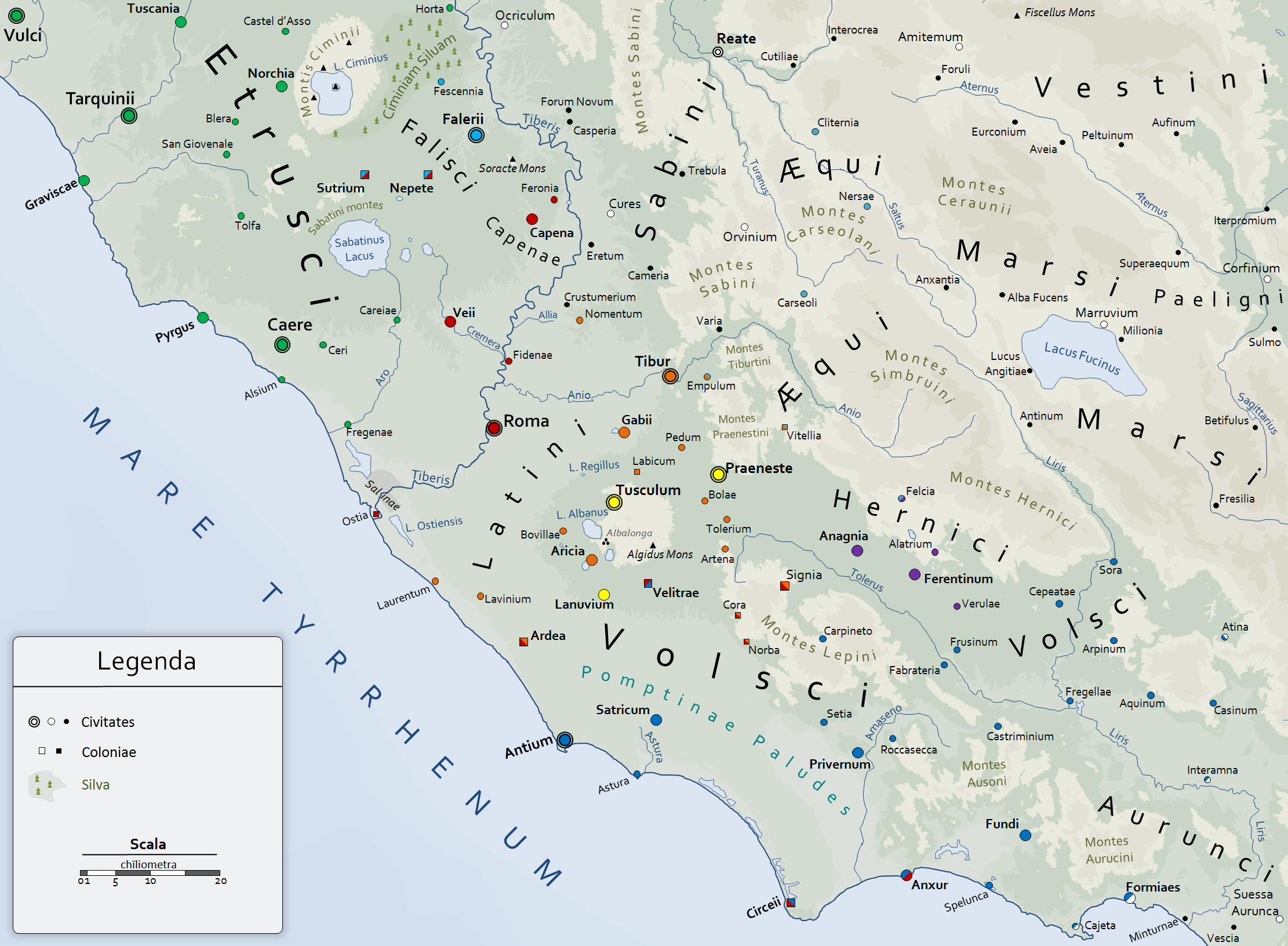 See Guerres romano-volsques (389 - 341)#Contexte for the full legend/caption of the map.